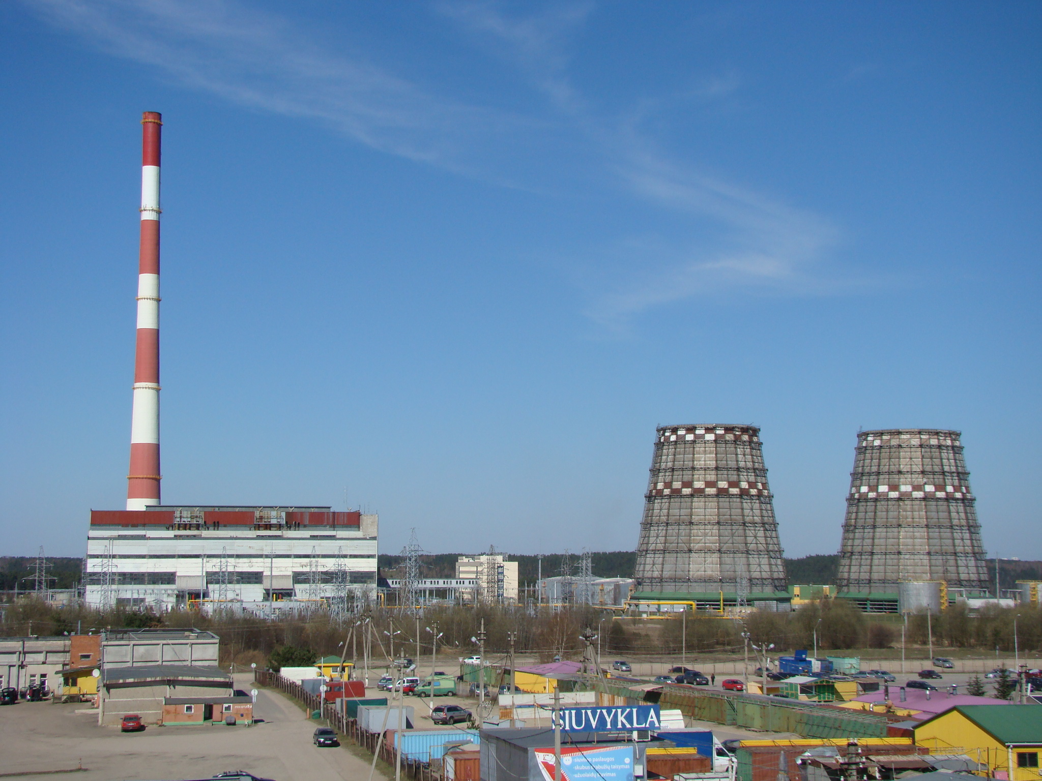 Vilnius power plant No. 3